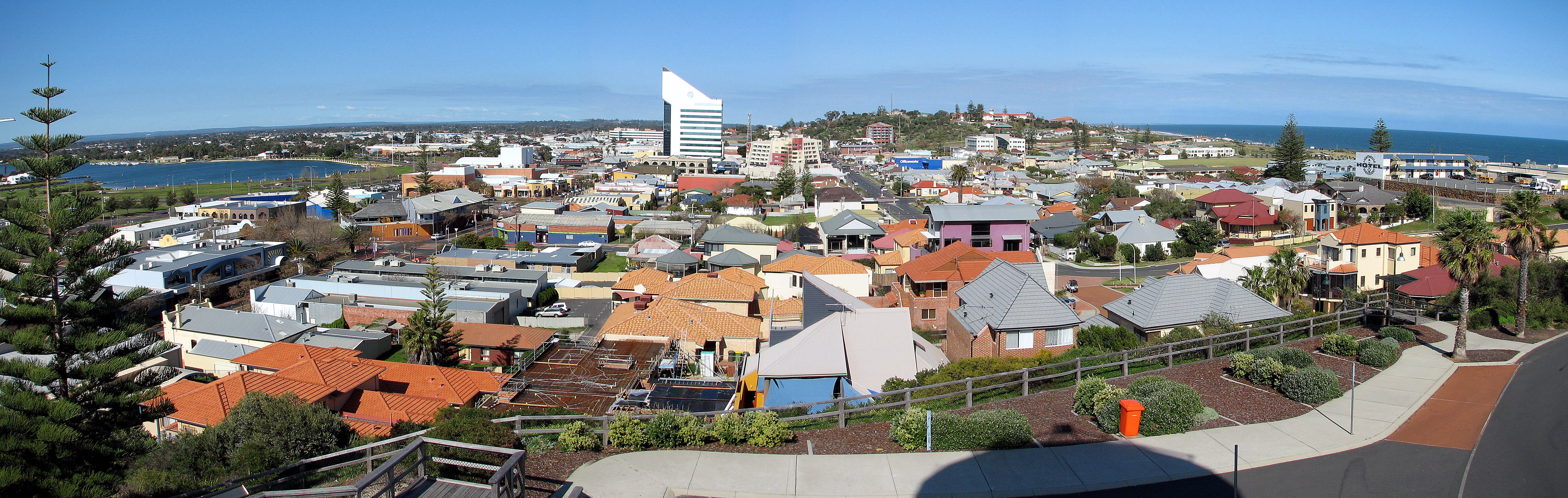 A panoramic view of Bunbury, Western Australia, from the Marlston Hill lookout tower, August 2007